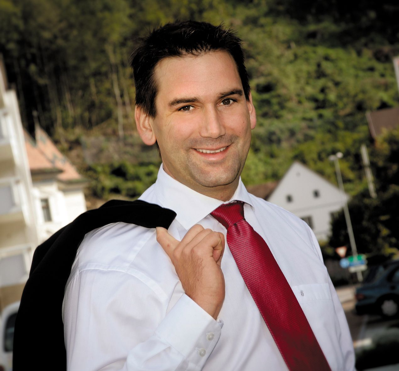 Martin Meyer is a member of the government of the principality of Liechtenstein.